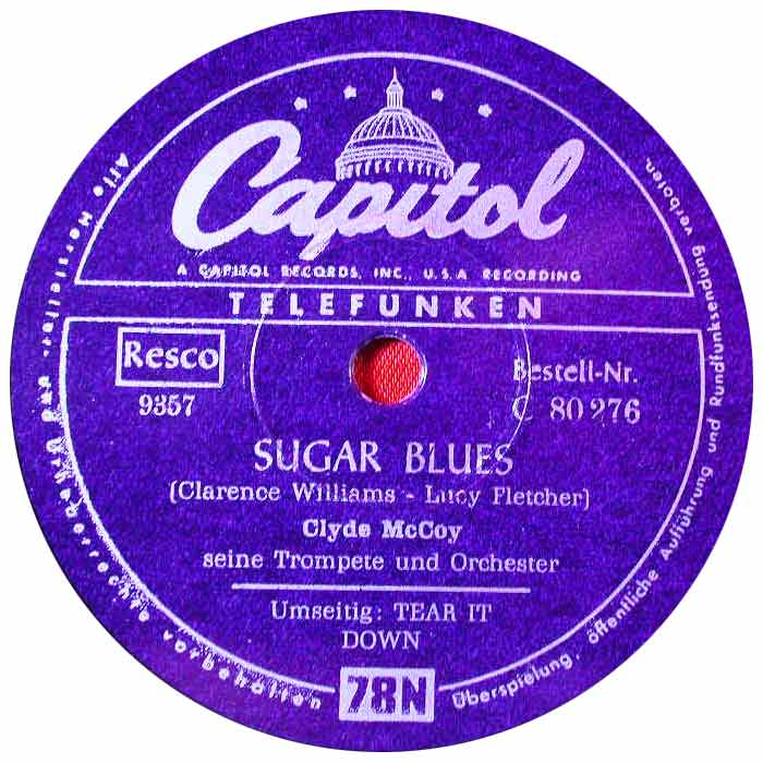 Clyde McCoy Sugar Blues 78-single